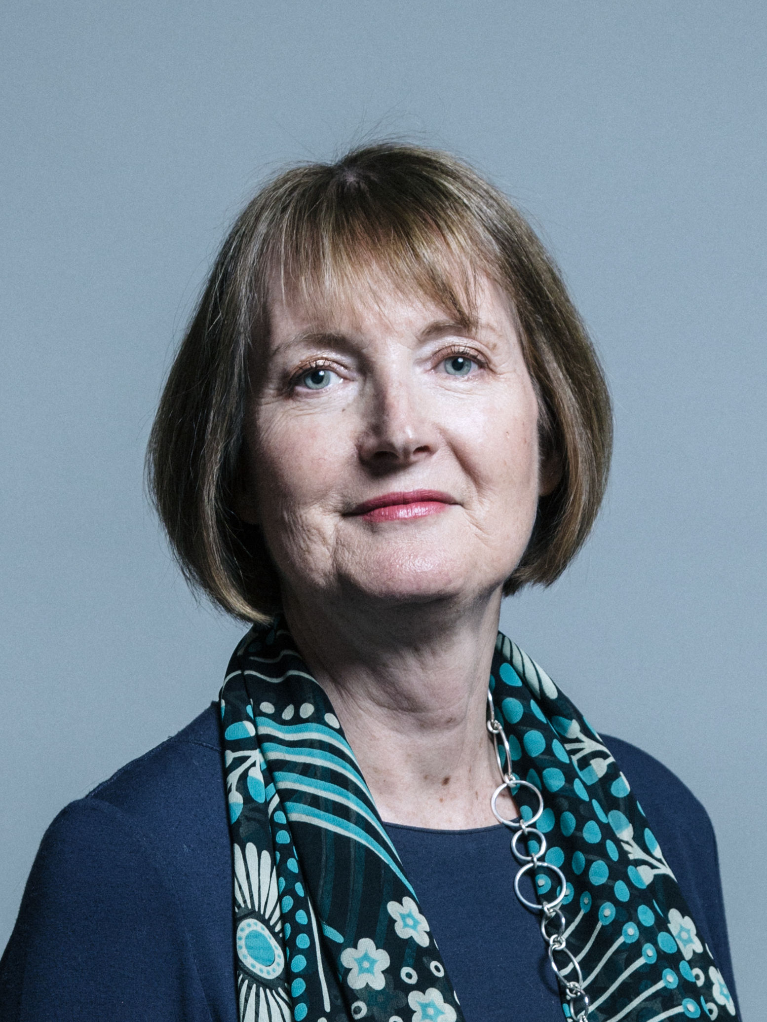 Official portrait of Ms Harriet Harman